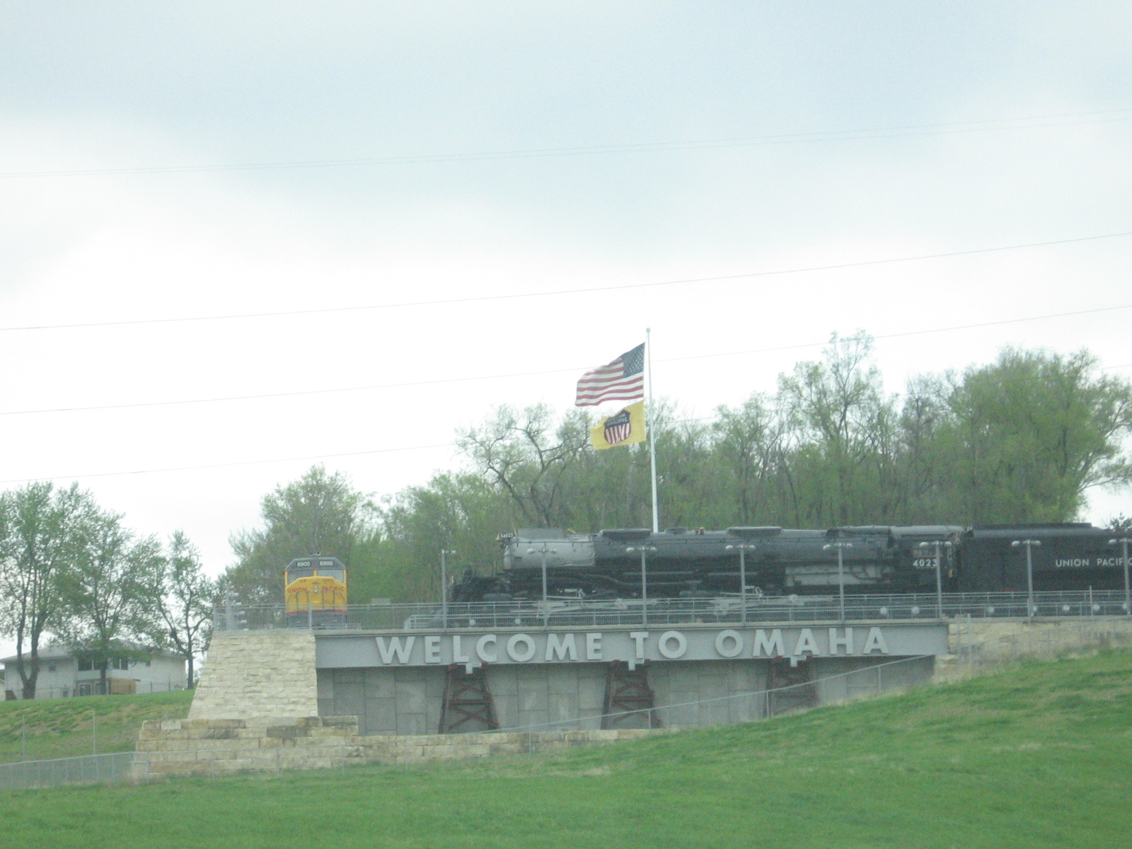 Kenefick Park in Omaha, Nebraska celebrating the trans-continental railroad and Union Pacific Railroad’s contributions to the area and the development of America. The park displays the massive Union Pacific Big Boy 4-8-8-4 steam locomotive #4023 and Union Pacific Centennial #6900 diesel-electric locomotives; viewed from interstate crossing Missouri River into Nebraska from Iowa.